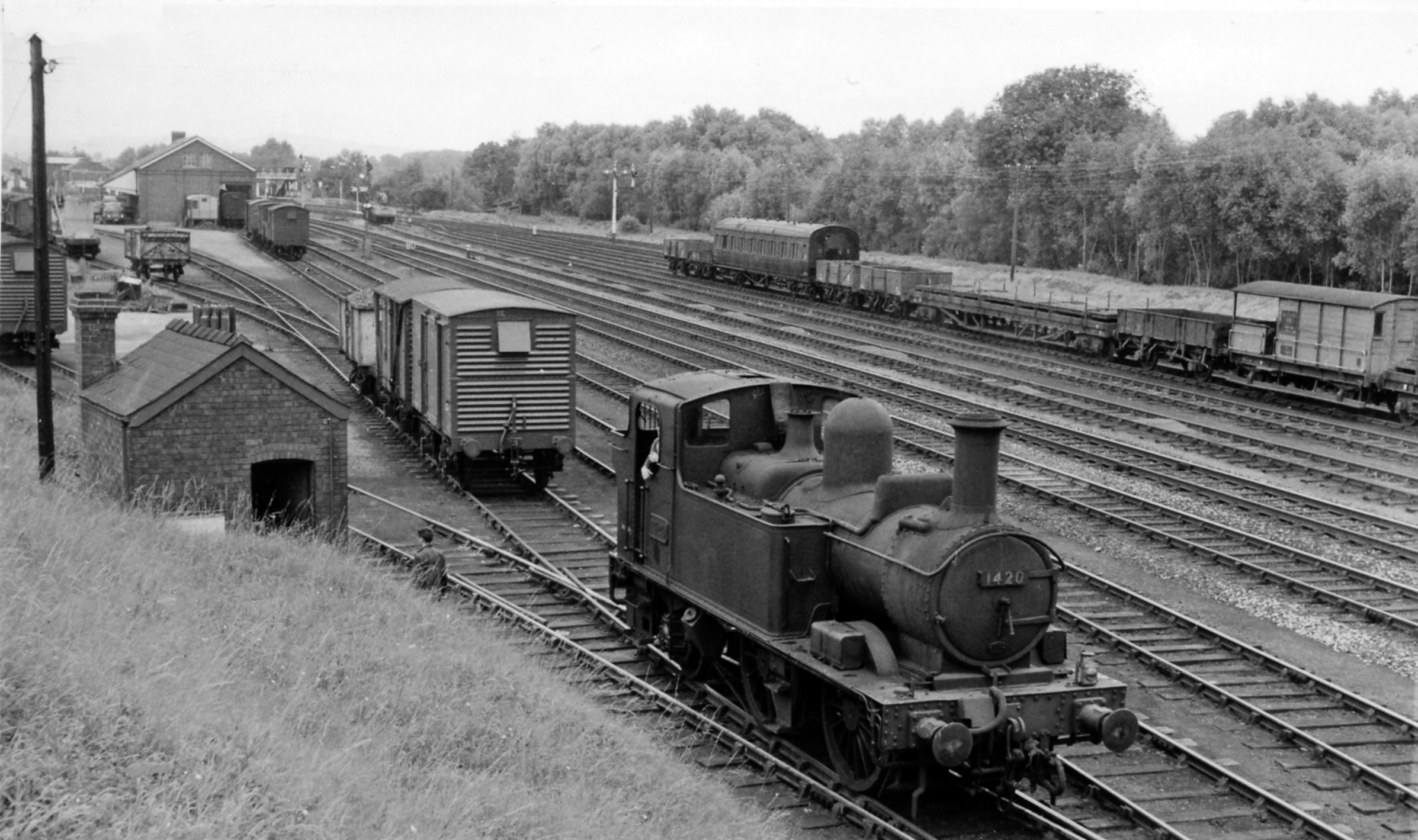 GW 0-4-2T in the Goods yard at Leominster. View northward, towards Leominster station, Ludlow and Shrewsbury: ex-GW & LNW Joint Shrewsbury - Hereford main line, formerly junction of branches from Worcester via Bromyard (closed 15/9/52) and New Radnor via Kington (closed instages up to 7/2/55 (goods 28/9/64). The auto-fitted 0-4-2T, No. 1420 (built as 4820 11/33, renumbered 11/46, withdrawn 11/64) is preserved on the South Devon Railway - see SX7466 : Preserved GW 0-4-2T with Devon Belle observation car at Buckfastleigh, Dart Valley Railway.